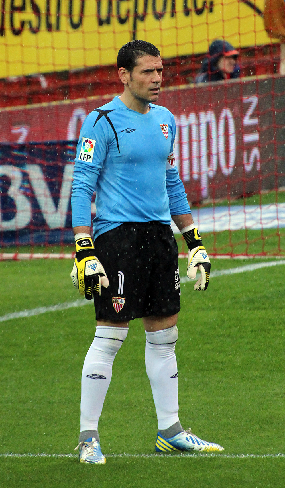 Spanish footballer who plays for Sevilla FC as a goalkeeper.